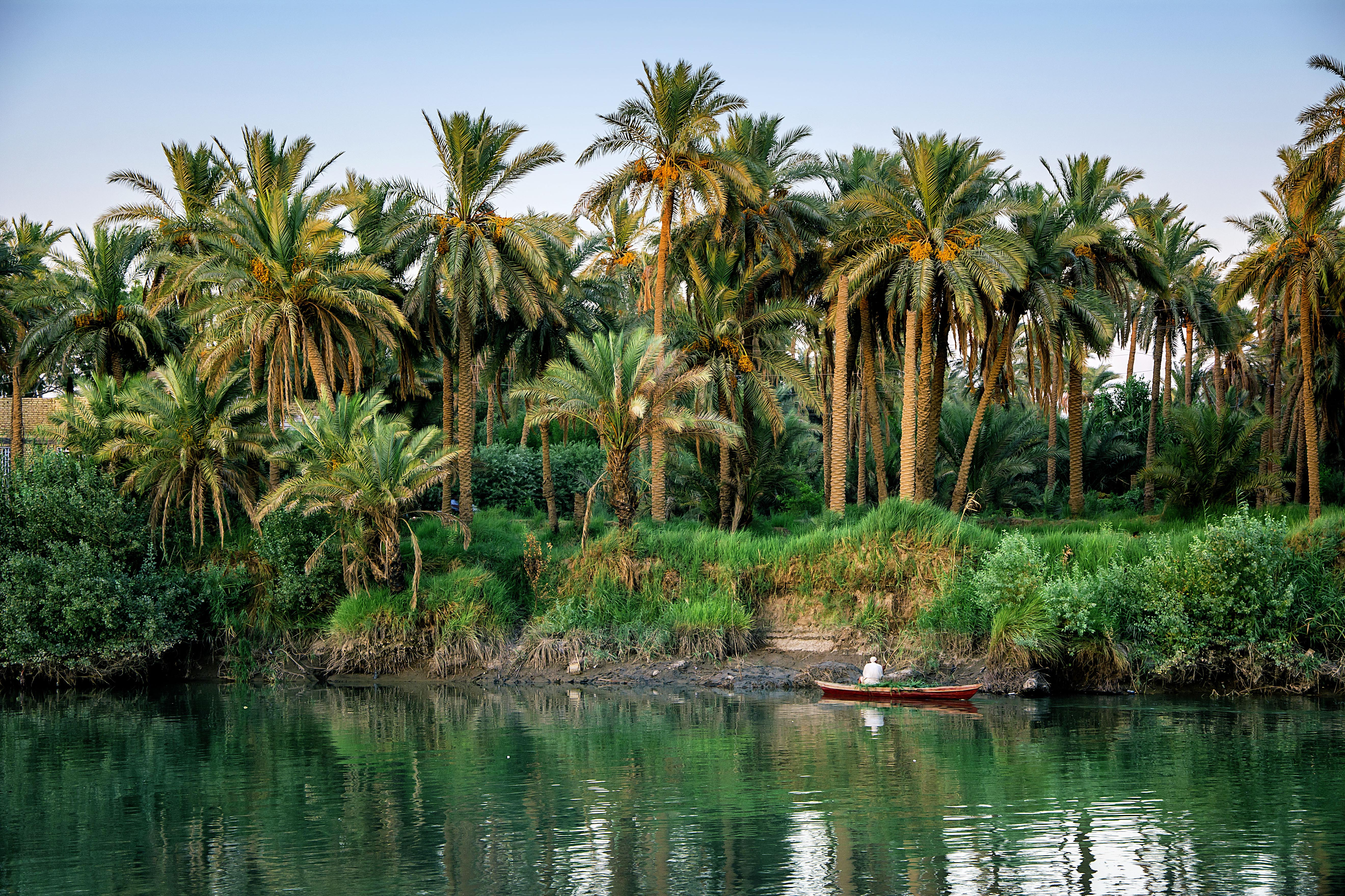 Al-Shamiya District - the main river. The photo was taken by Mustafa Turki in Dalki village in Al-Shamiya District in Al-Qādisiyyah Governorate